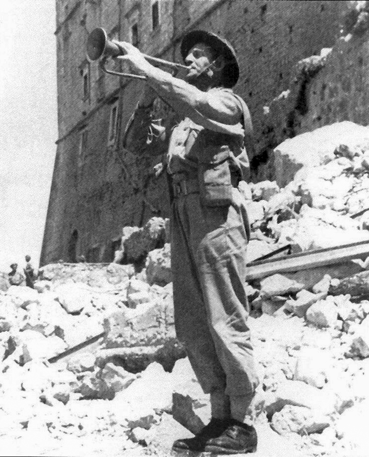 Source: Polish Institute and Sikorski Museum